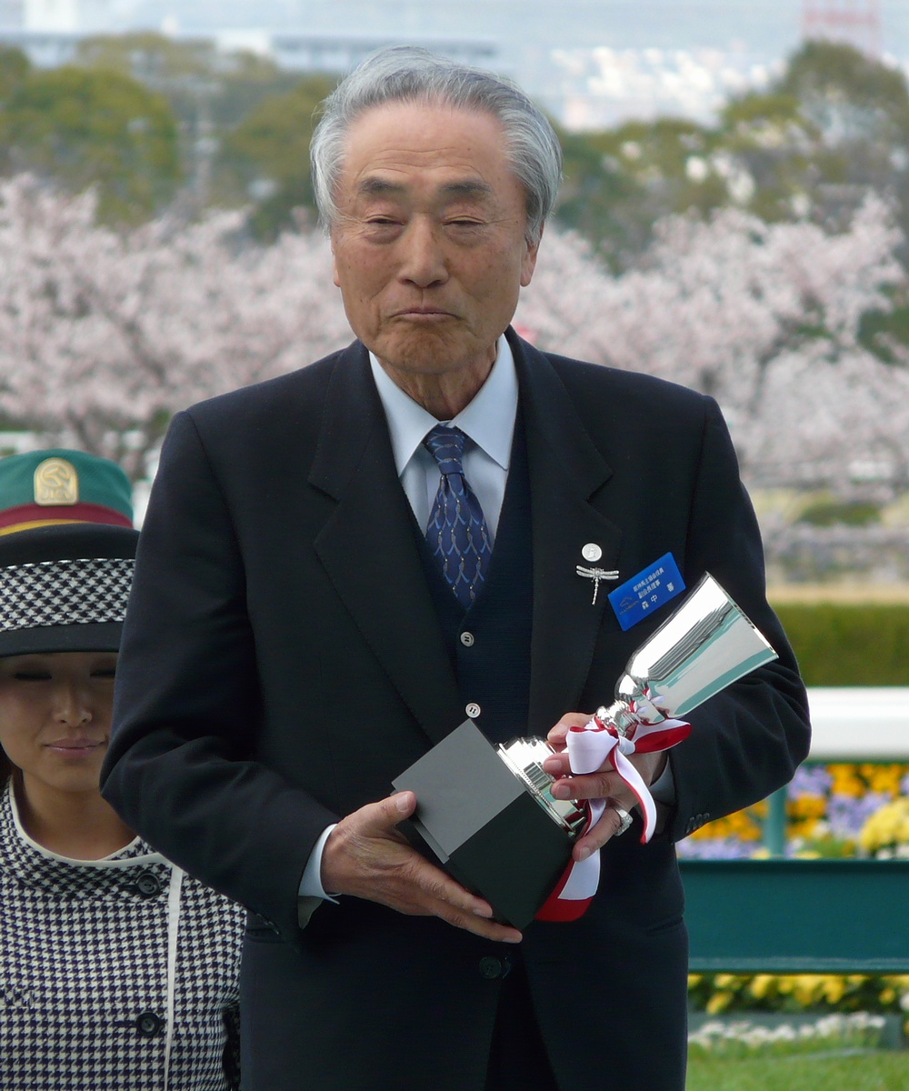 Shigeru-Morinaka20100403